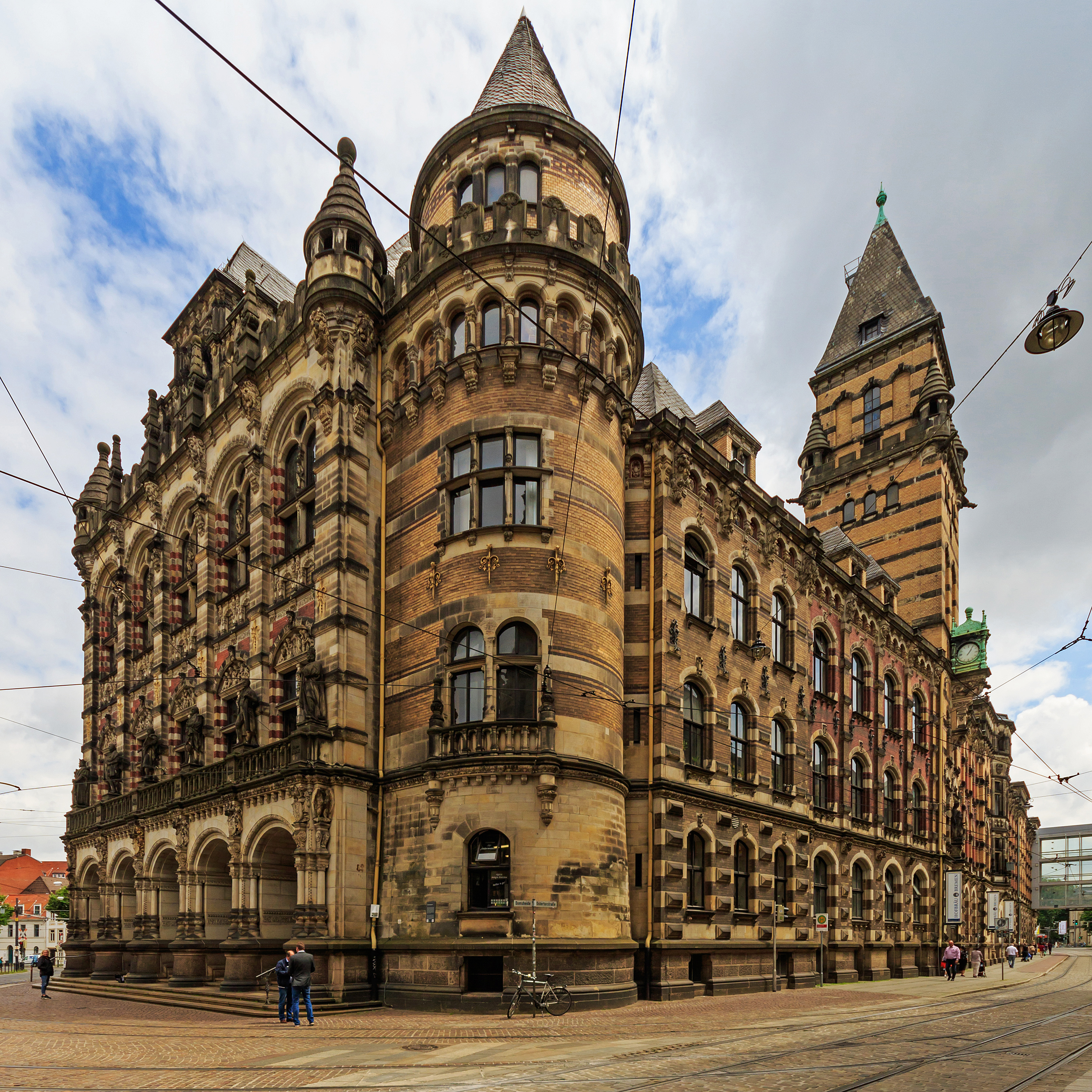 Building of Bremen state's courthouse in Bremen, Germany